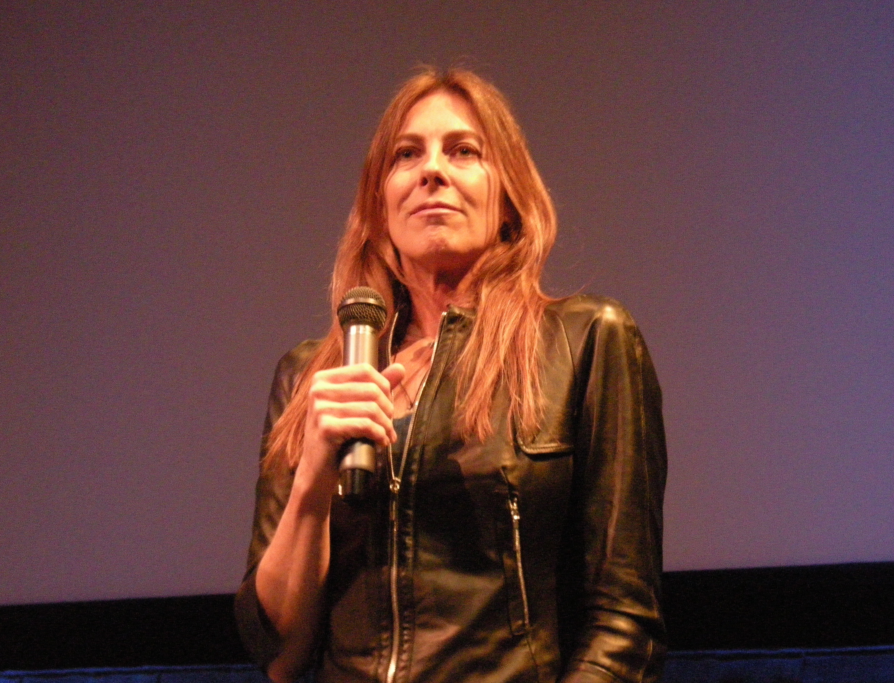 Film director Kathryn Bigelow after a showing of her film The Hurt Locker, 2009 Seattle International Film Festival.